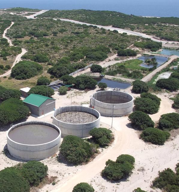 Aerial view aerobic granular sludge full-scale installation, Gansbaai South Africa